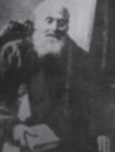 Father Peter Karishiaranti (1804-1892), founder of the Georgian Catholic Monastery in Istanbul.